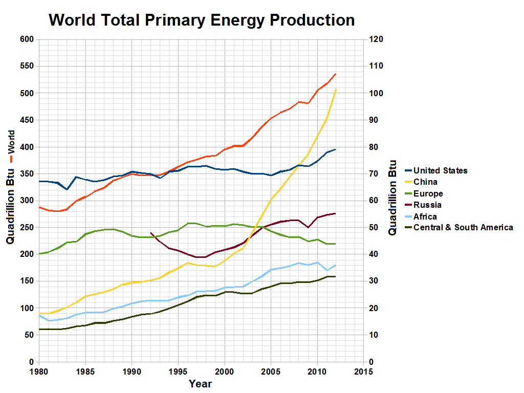 World total primary energy production in quadrillion Btu. Source[1] This chart may be updated annually.